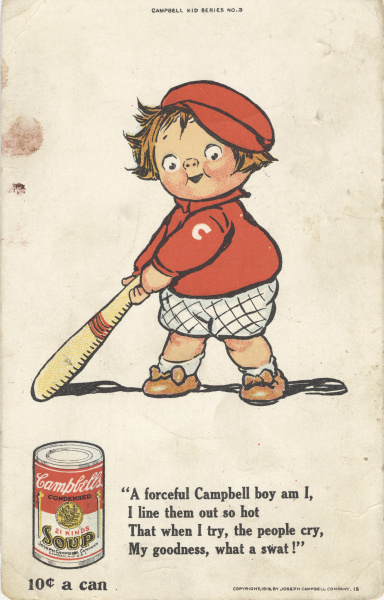 Persistent URL: Subject (TGM): Children; Boys; Baseball; Fictitious characters; Soups; Food industry; Canned foods; Postcards; Keywords: Campbells' Condensed Soup (21 kinds)